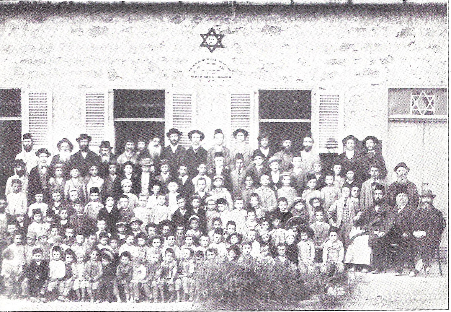 This picture is from an book published in 1899, with contemporary and historical photographs.